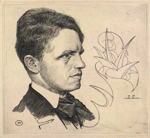 Self-portrait of Jens Lund. The Royal Library